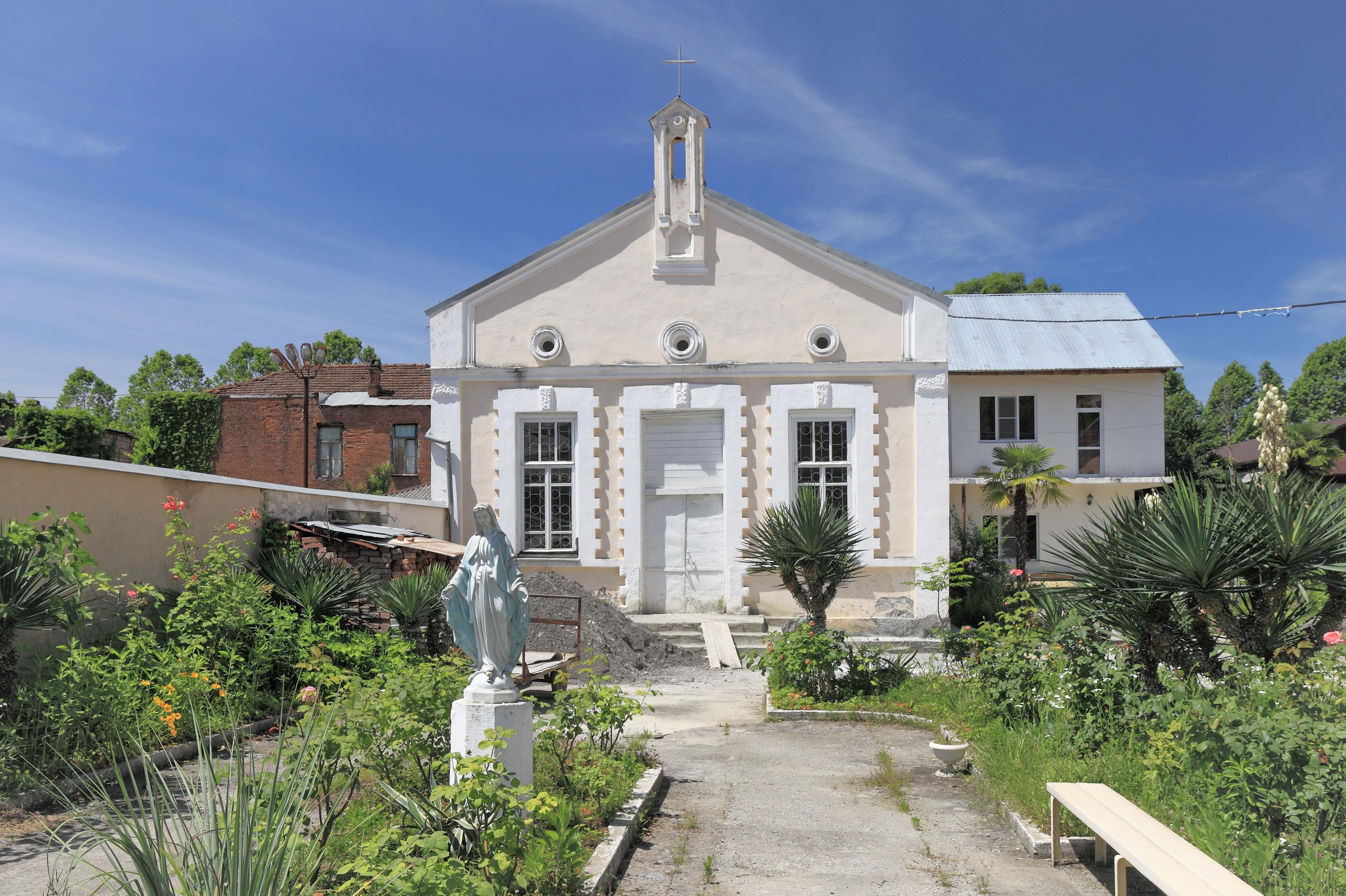 Roman Catholic Church of St. Simon the Zealot. Sukhumi, Abkhazia.